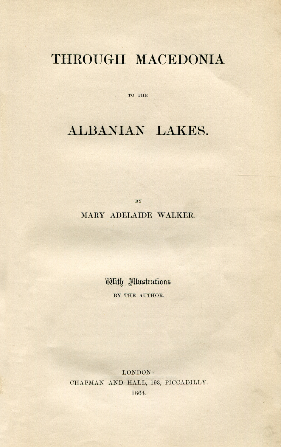 Through Macedonia to the Albanian Lakes, title page - Walker Mary Adelaide - 1864